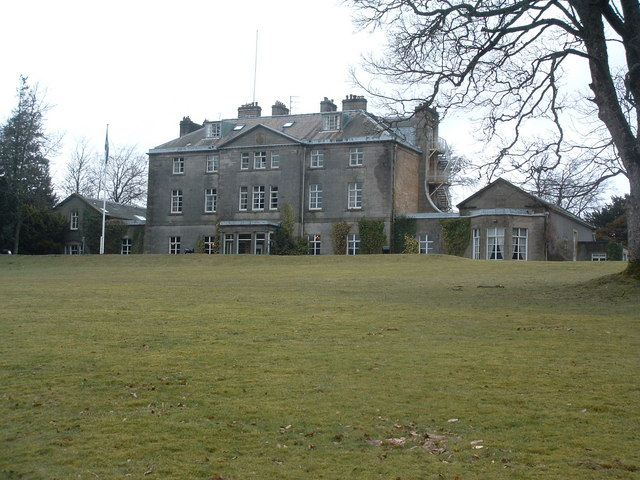 Castle Craig. Rehabilitation centre in impressive grounds.